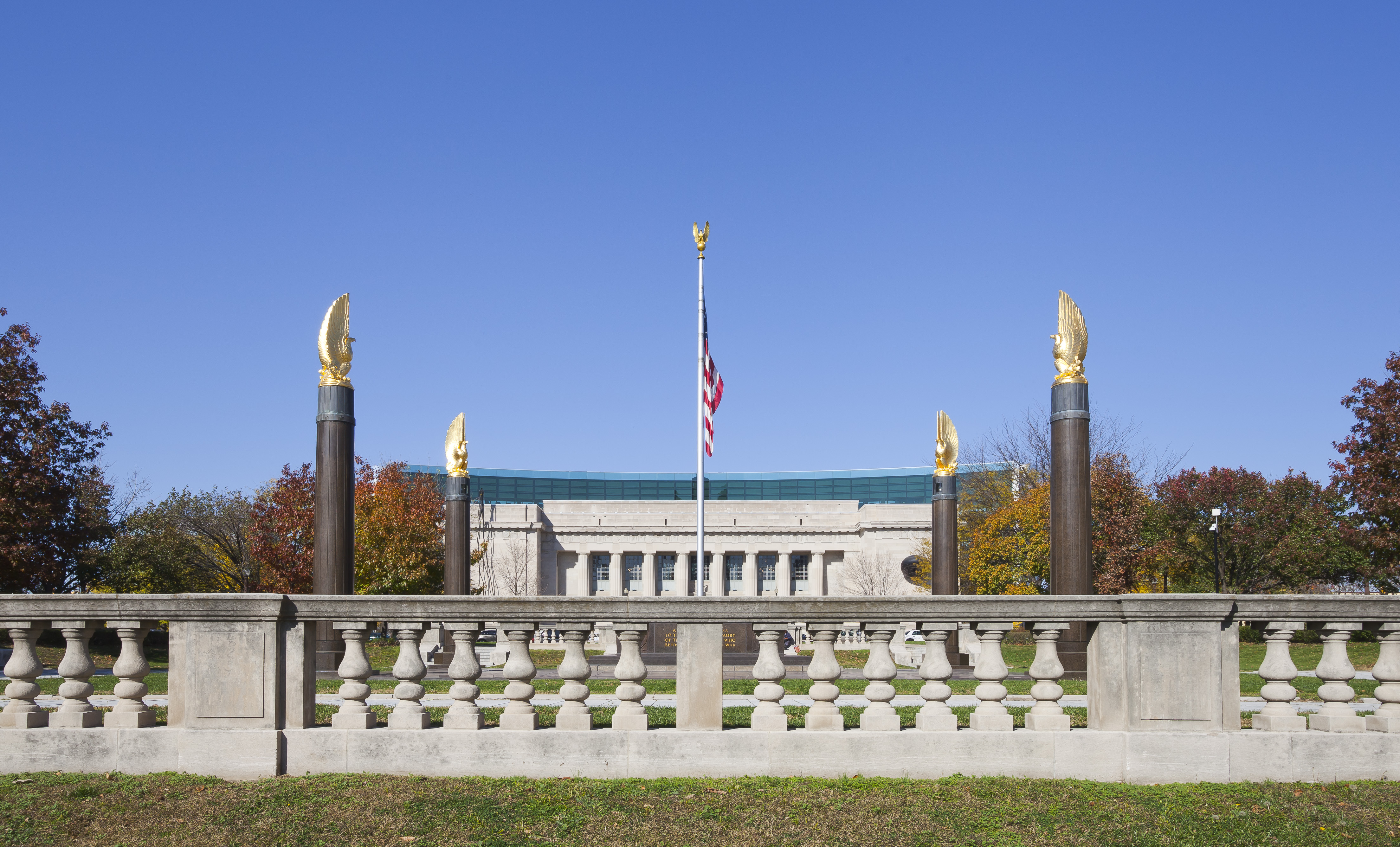 Central library, Indianapolis, USA